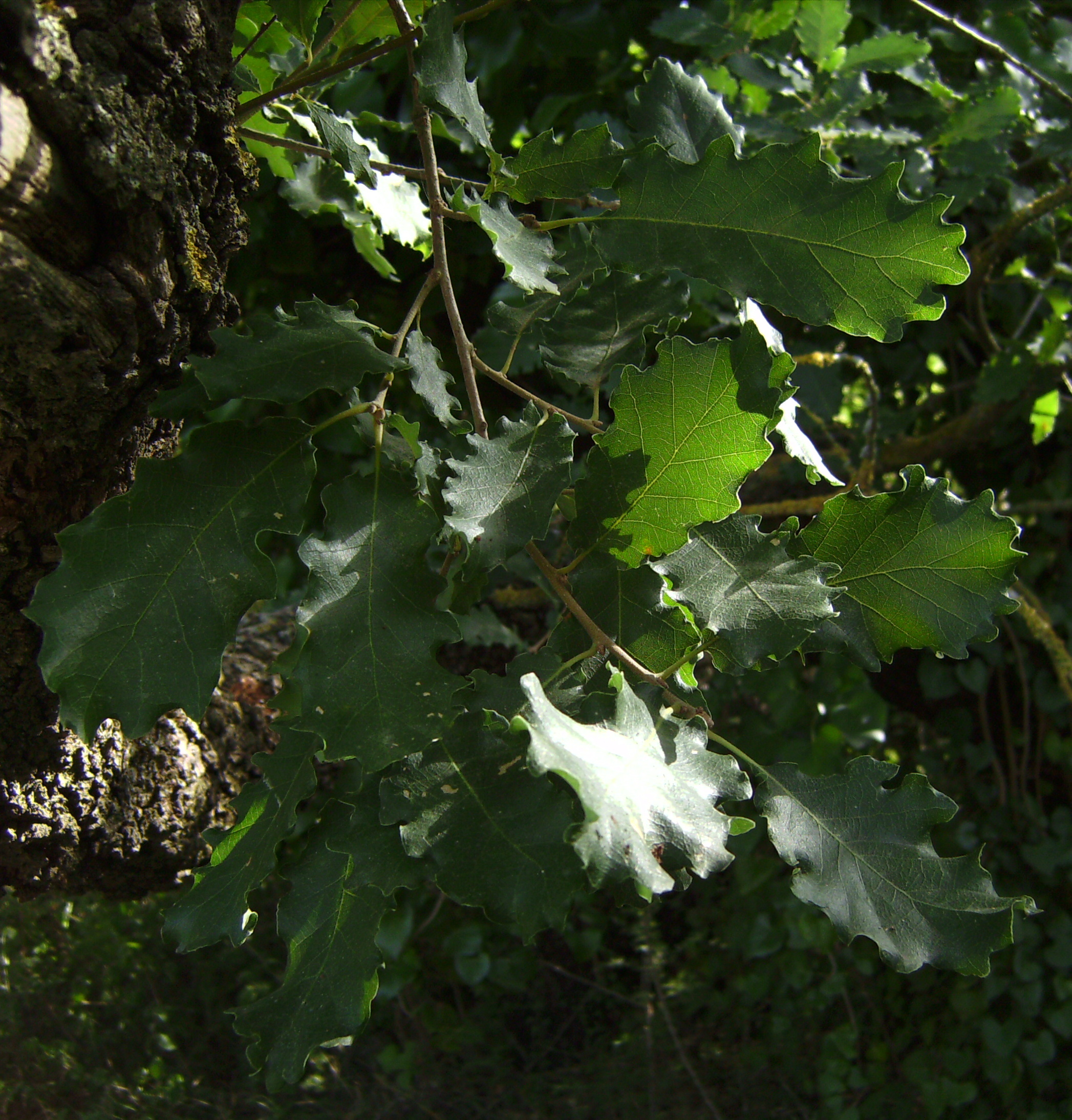 Quercus pubescens, leaves, Castelltallat, Catalonia